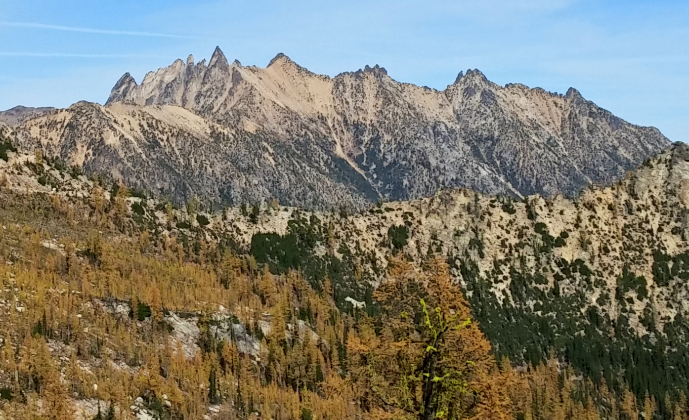 The Needles seen from the Pacific Crest Trail